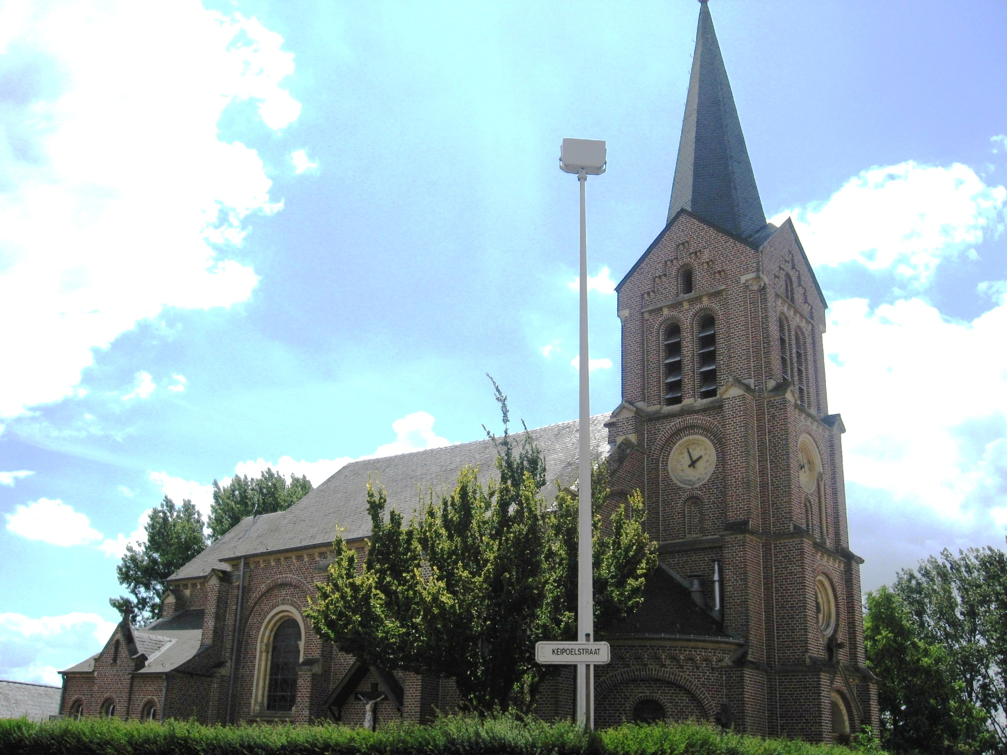 Church of Saint Amand in Vliermaal (Zammelen), Kortessem, Limburg, Belgium